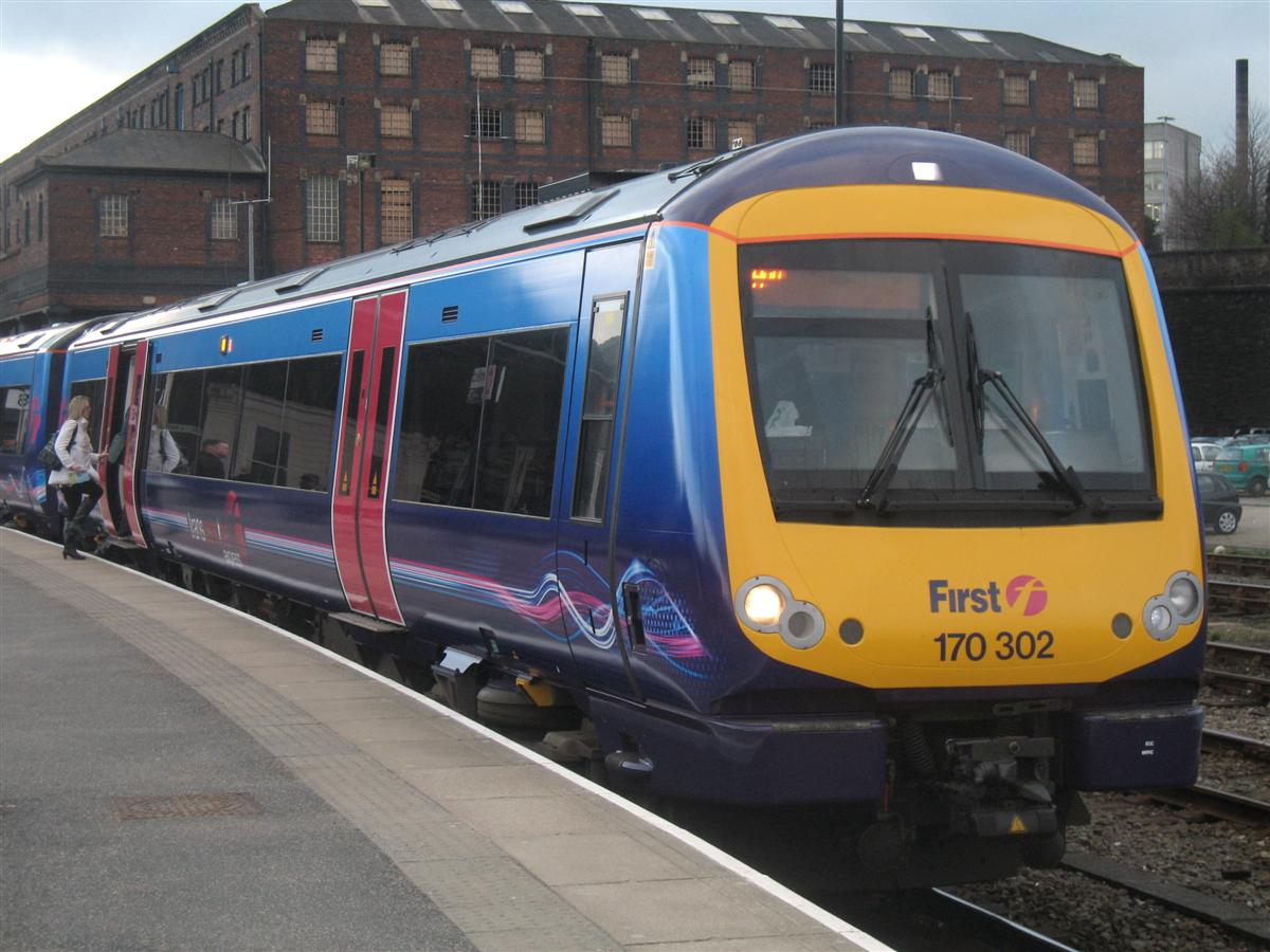 TransPennine Express Class 170 170302 stands in Huddersfield Platform 8 working 1K22 1642 Manchester Piccadilly to Hull